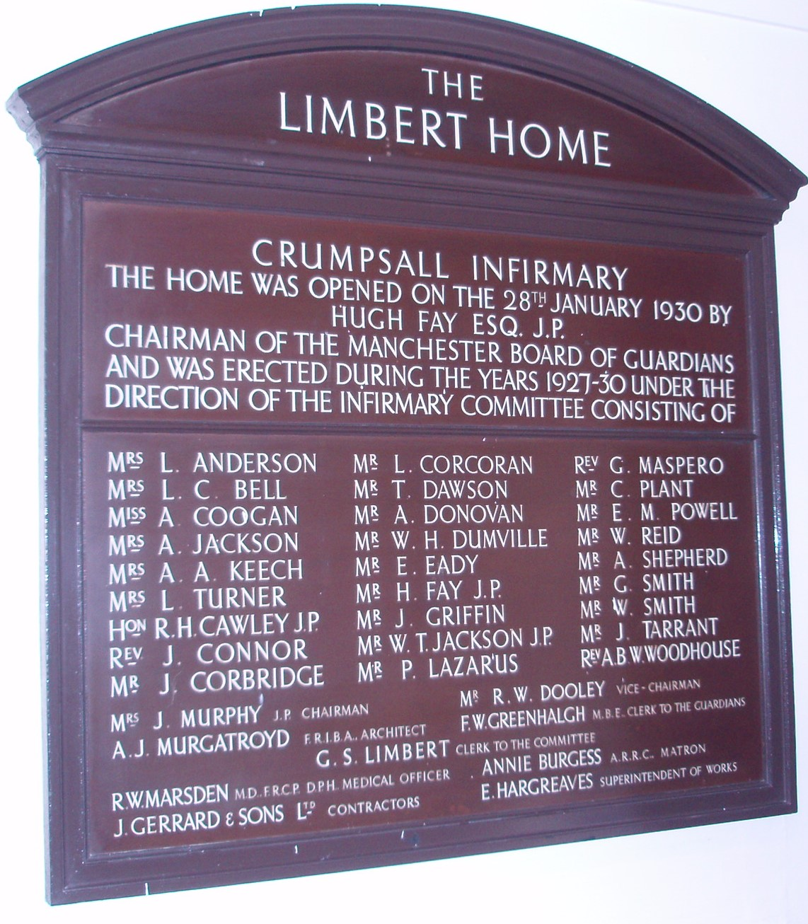 Crumpsall Infirmary Committee plaque 1930